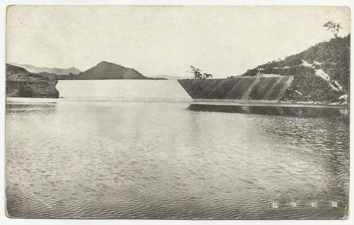 Tosha Dam